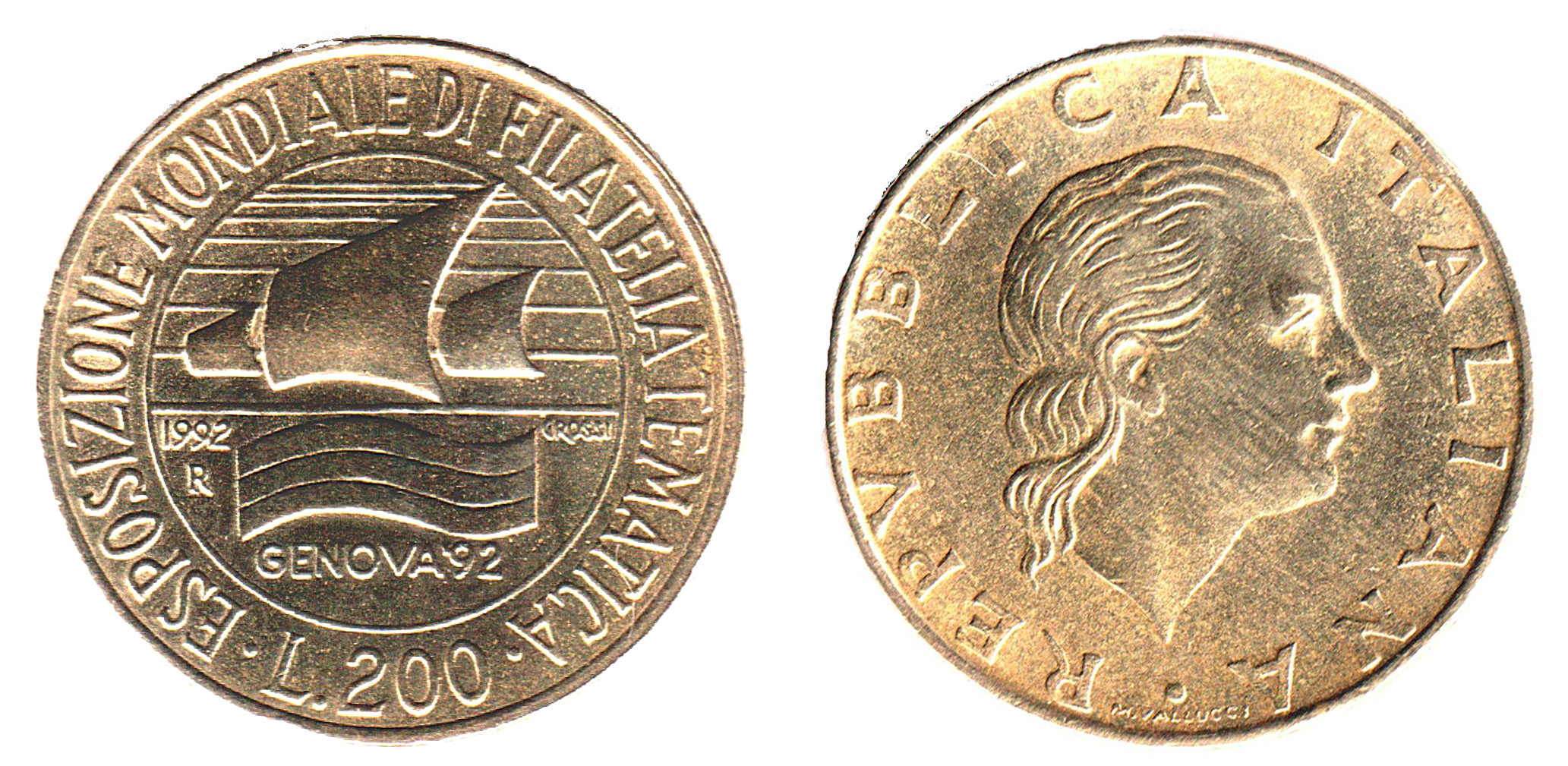 200 lire coin commemorating the World Philatelic Expo in Genoa in 1992.